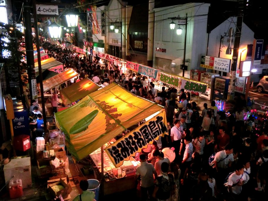 The 2012 Taira Tanabata Festival in Iwaki City, Fukushima Prefecture, Japan